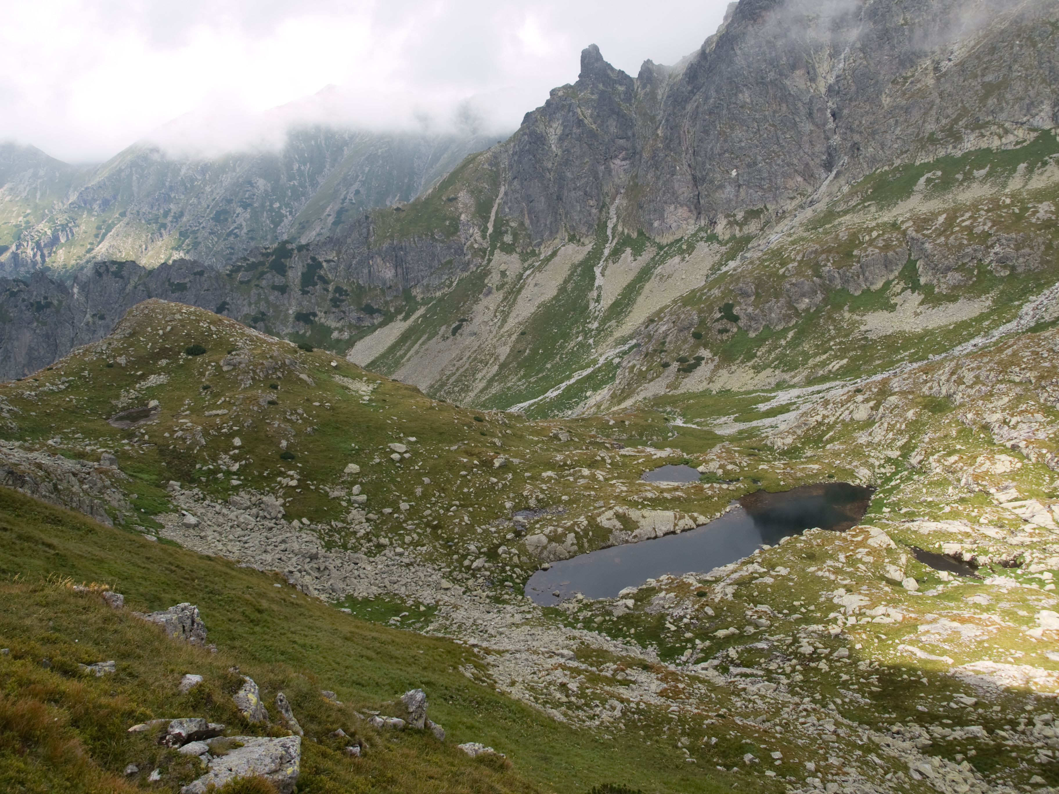 Hrubé plesá, in the background Svišťový roh.